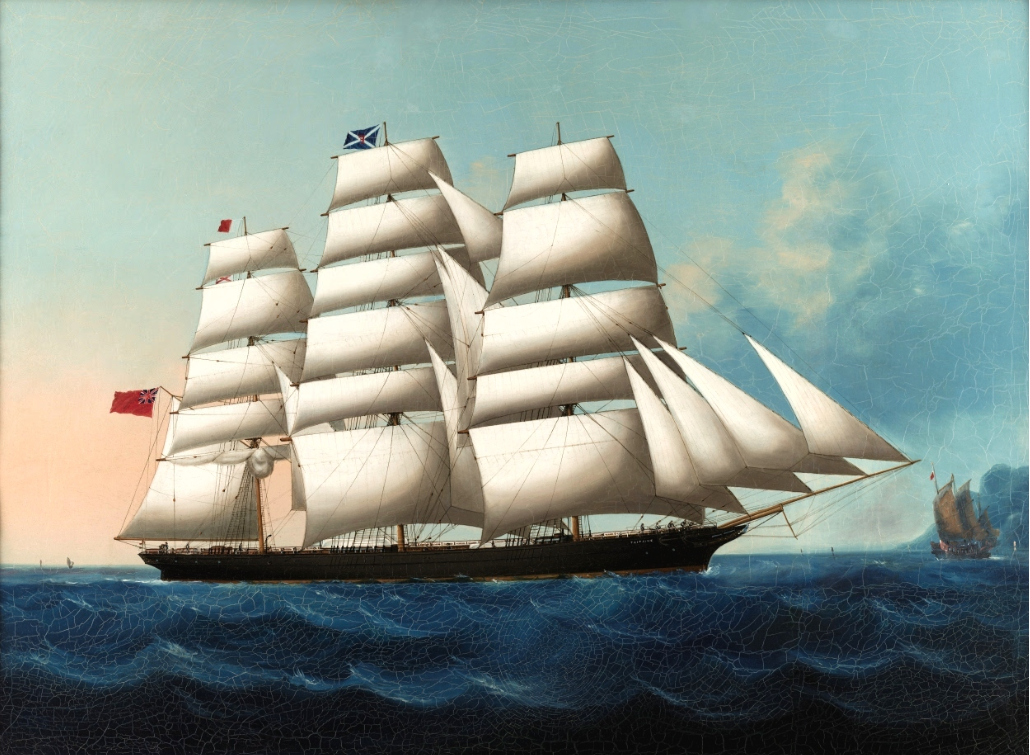 The British clipper 'Taitsing' (Great Arrow) off Hong Kong Date created: 1865 Location created: China Physical Dimensions: 62.5 x 85 cm Provenance: Gift of Anthony J. Hardy, Exhibited: Kennebunkport Maritime Museum, Maine, 1983-99 Type: Painting Publisher: Painting of the China Trade: The Sze Yuan Tang Collection of Historic Paintings (2013), cat. 95 Rights: ©Hong Kong Maritime Museum Medium: Oil on canvas object id: HKMM2005.0036.0001